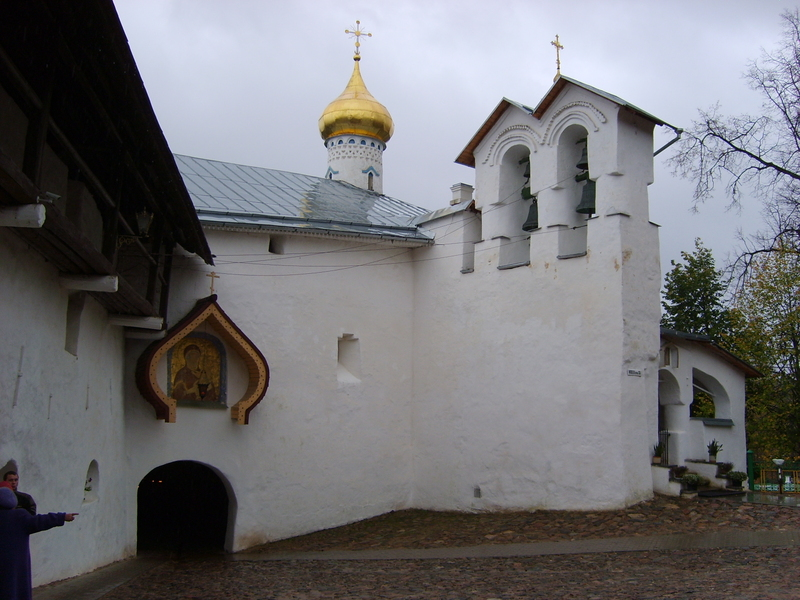 Pskovo-Pechersky Monastery. Nikola Church's BellTower